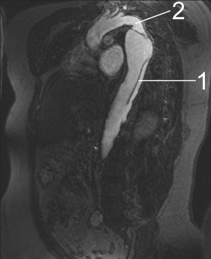 MRT scan of aortic dissection